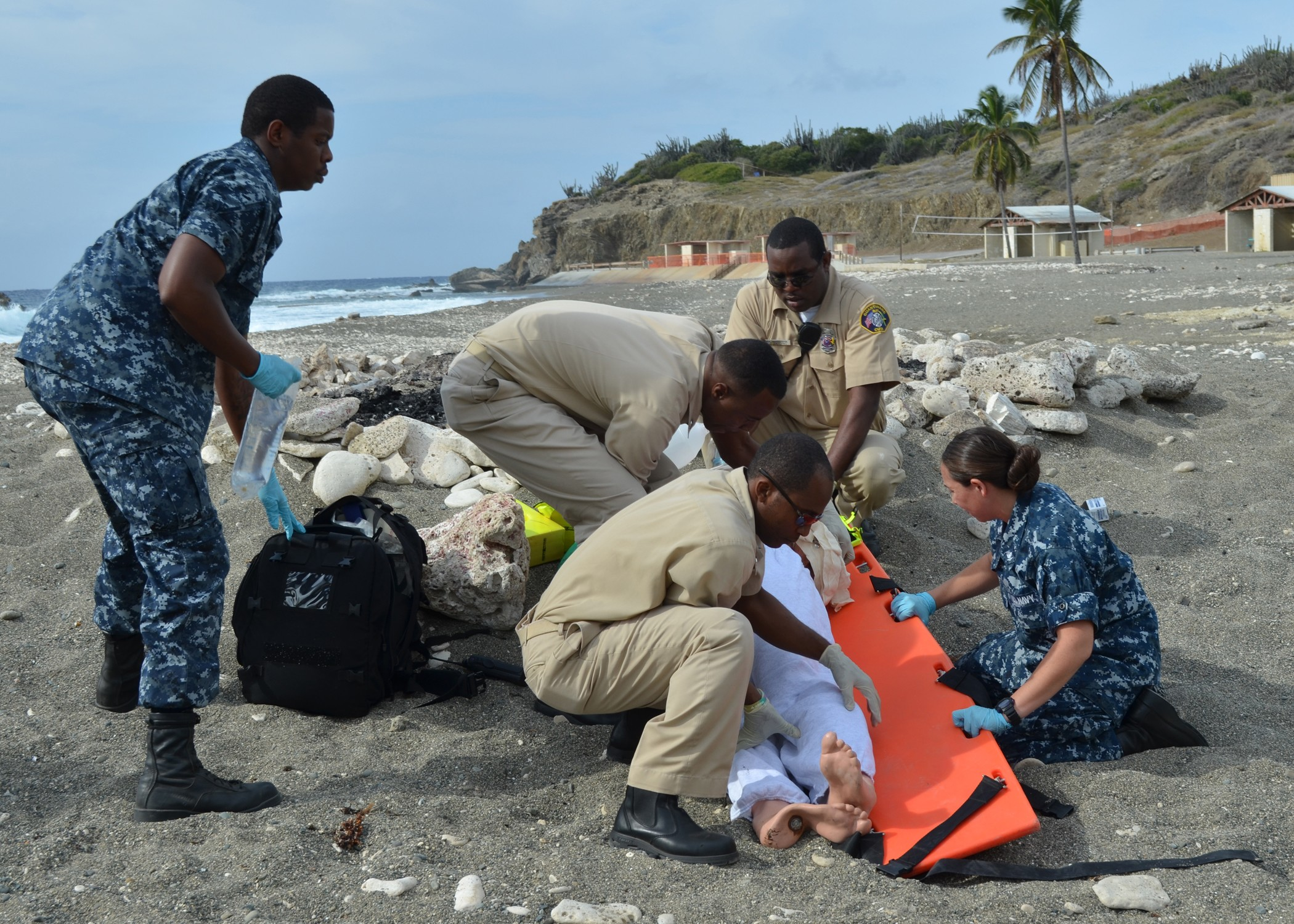 GUANTANAMO BAY, Cuba (Feb. 3, 2012) U.S. Naval Hospital Guantanamo Bay emergency technician (EMT) trainees work with Naval Station Guantanamo Bay firemen to prepare a trauma training mannequin for transportation during their final EMT field training exercise at Windmill Beach. Because of its isolation, U.S Naval Hospital Guantanamo Bay is currently the only Naval medical facility where hospital corpsmen receive EMT training through the hospital. Once certified, the corpsmen are nationally registered EMTs, qualified to work in the hospital's emergency room and respond to on-site emergencies. (U.S. Navy photo by Stacey Byington/Released)